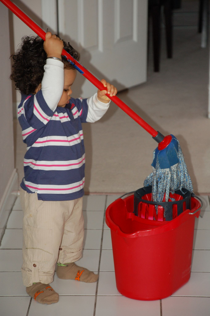 Photograph of a toddler holding a mop with a bucket